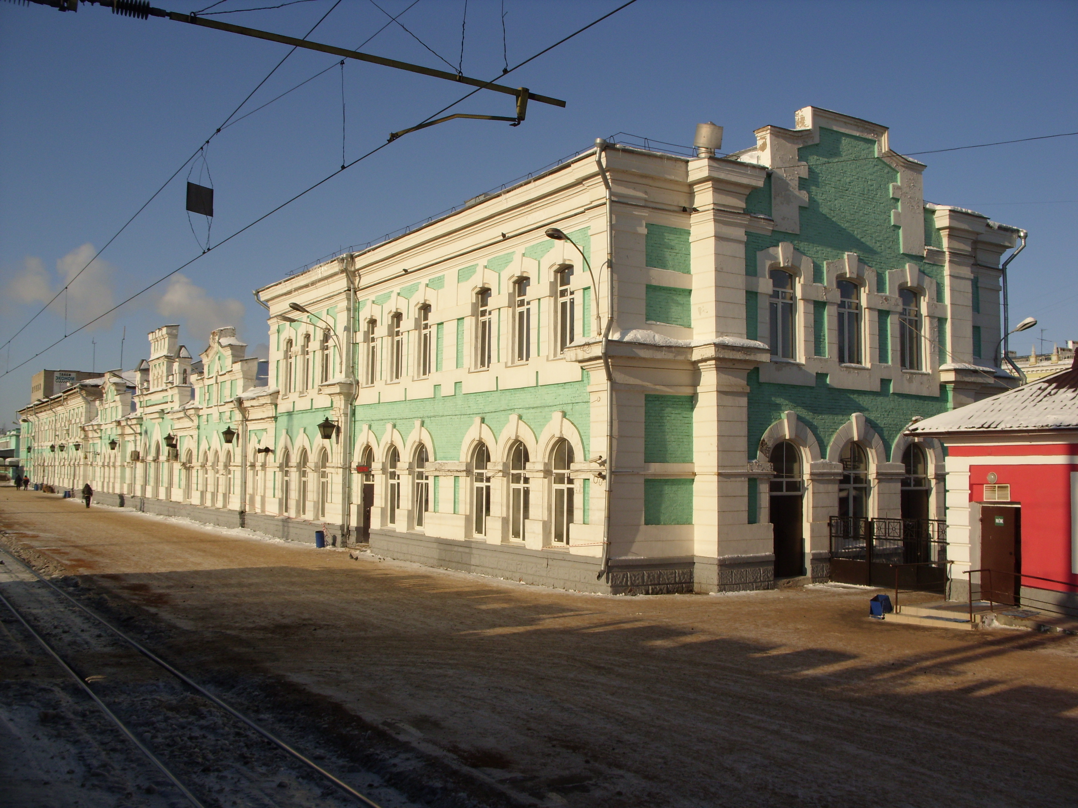 Vologda. Vokzal Вологда-1